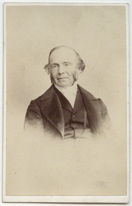 Portrait of William Hanna (1808–1882), Scottish minister.